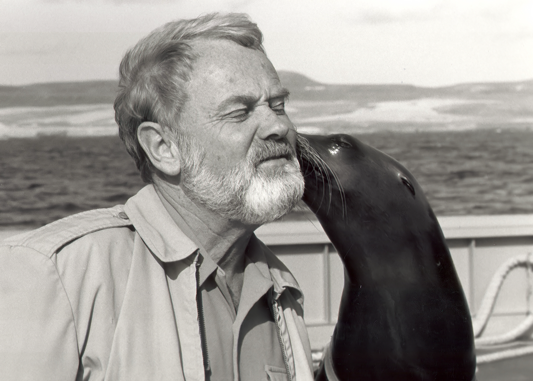 GiGi, a trained sea lion, nuzzles Capt. Arne Willehag of the USNS Sioux, a Military Sealift Command ocean tugboat in 1983. Gigi and other seals at the time of this photo were being trained to recover underwater anti-submarine rockets as part of the Navy's Quick Find program.